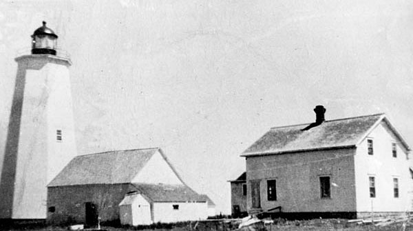 The lighthouse and a house in Miscou, New Brunswick, circa 1930.